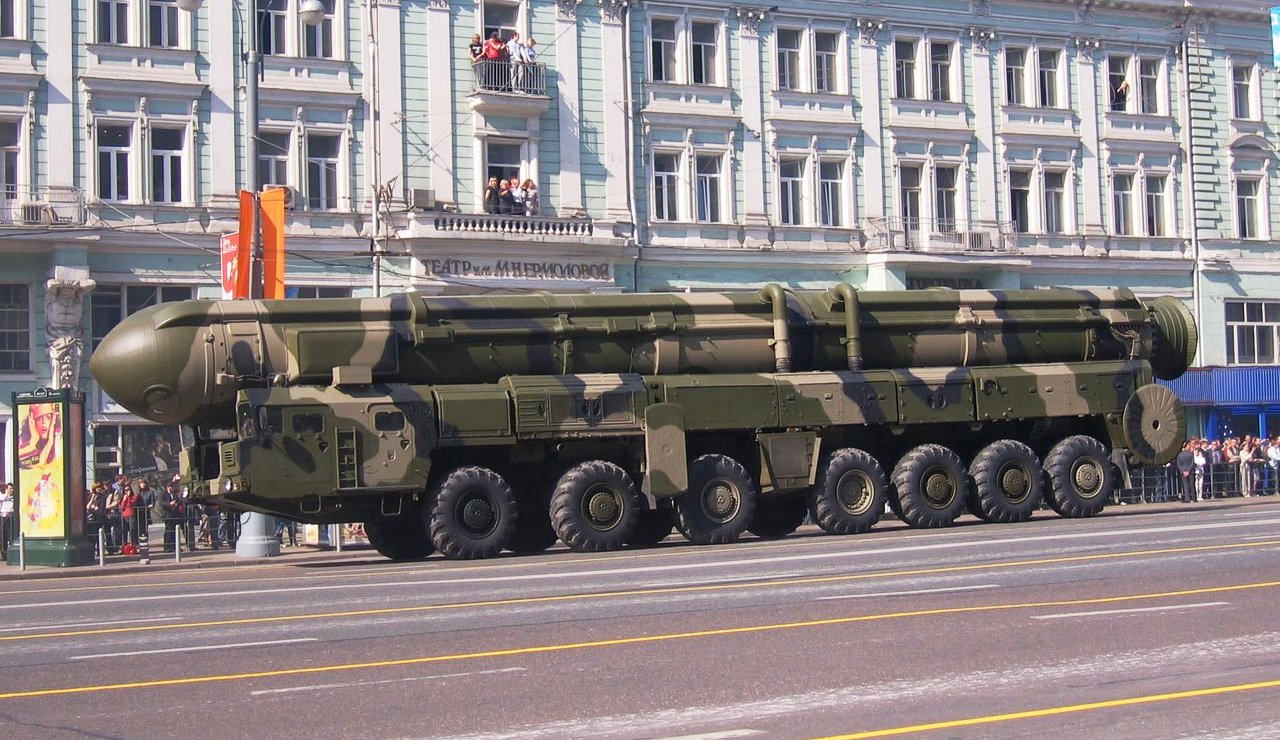 Rehearsal for the 2008 Moscow May Parade.